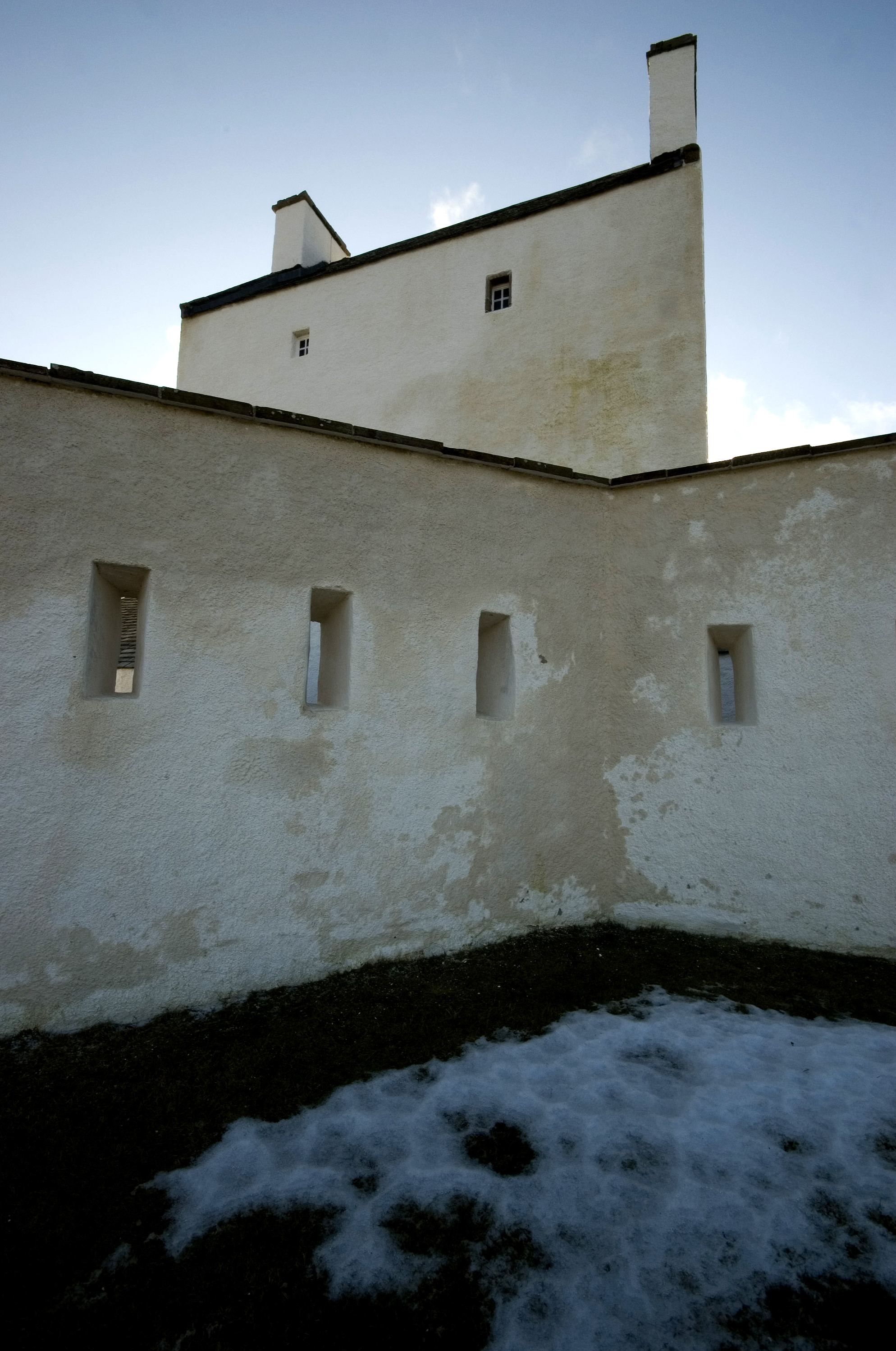 Corgarff Castle, Scotland, by B. A. Watson.